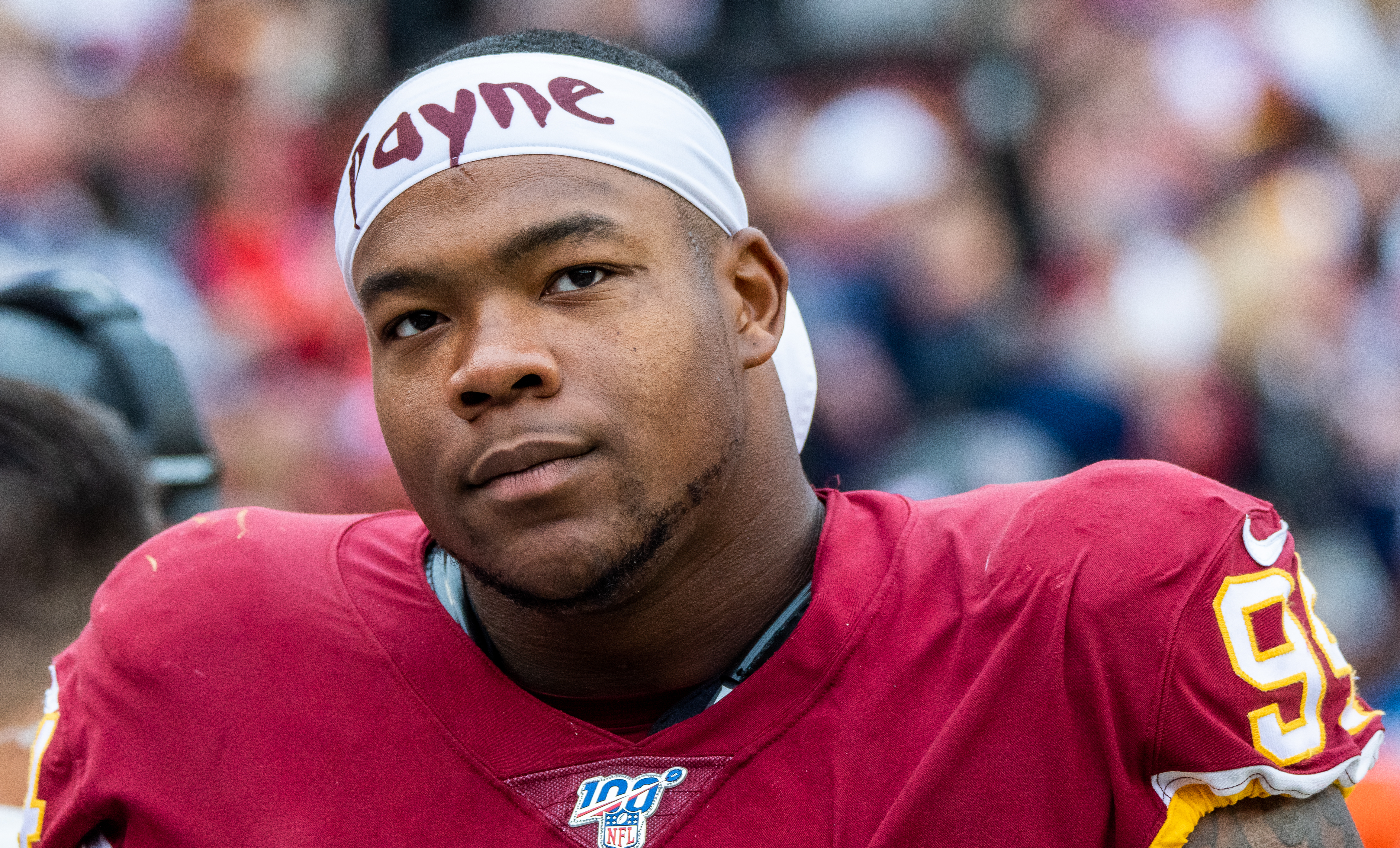 In 2019